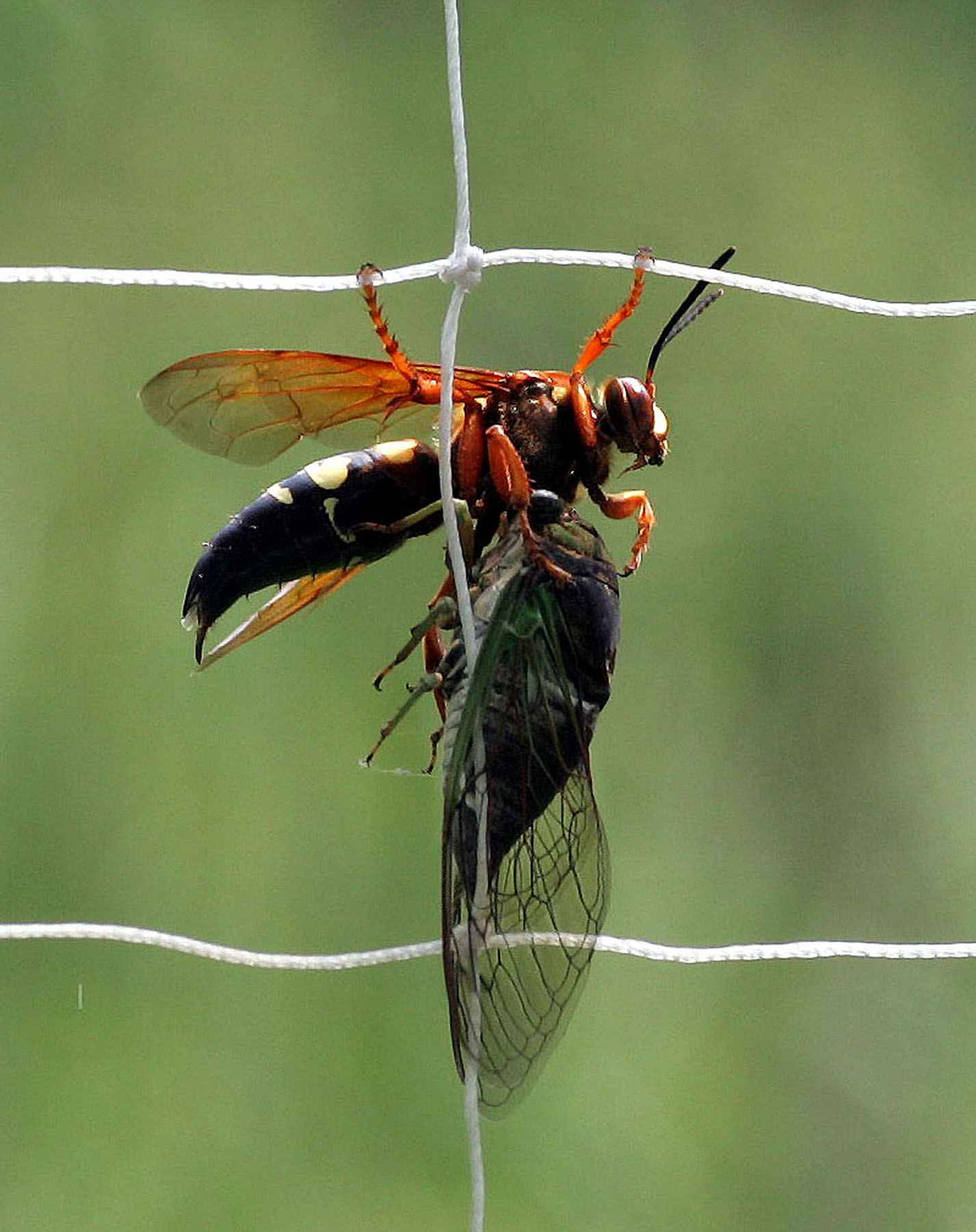 Image title: Cicada killer wasp holding dead cicada Image from Public domain images website